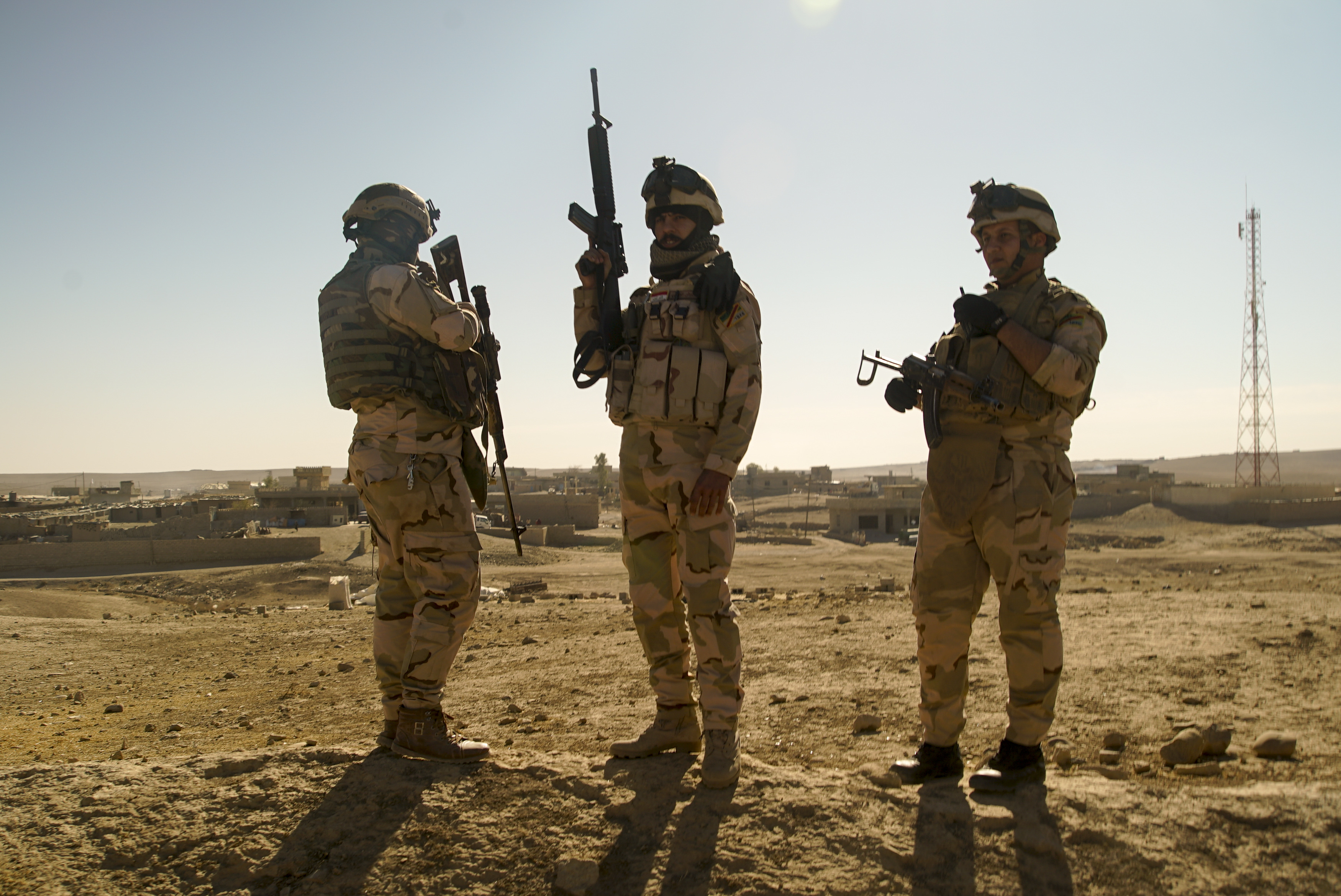 Iraqi Army soldiers. South of Mosul, Northern Iraq, Western Asia. 23 November, 2016.